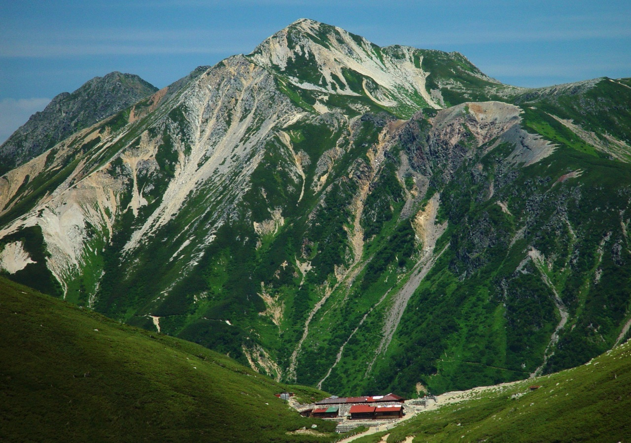 Mount Washiba and Sugorokugoya ("Sugoroku Hut")